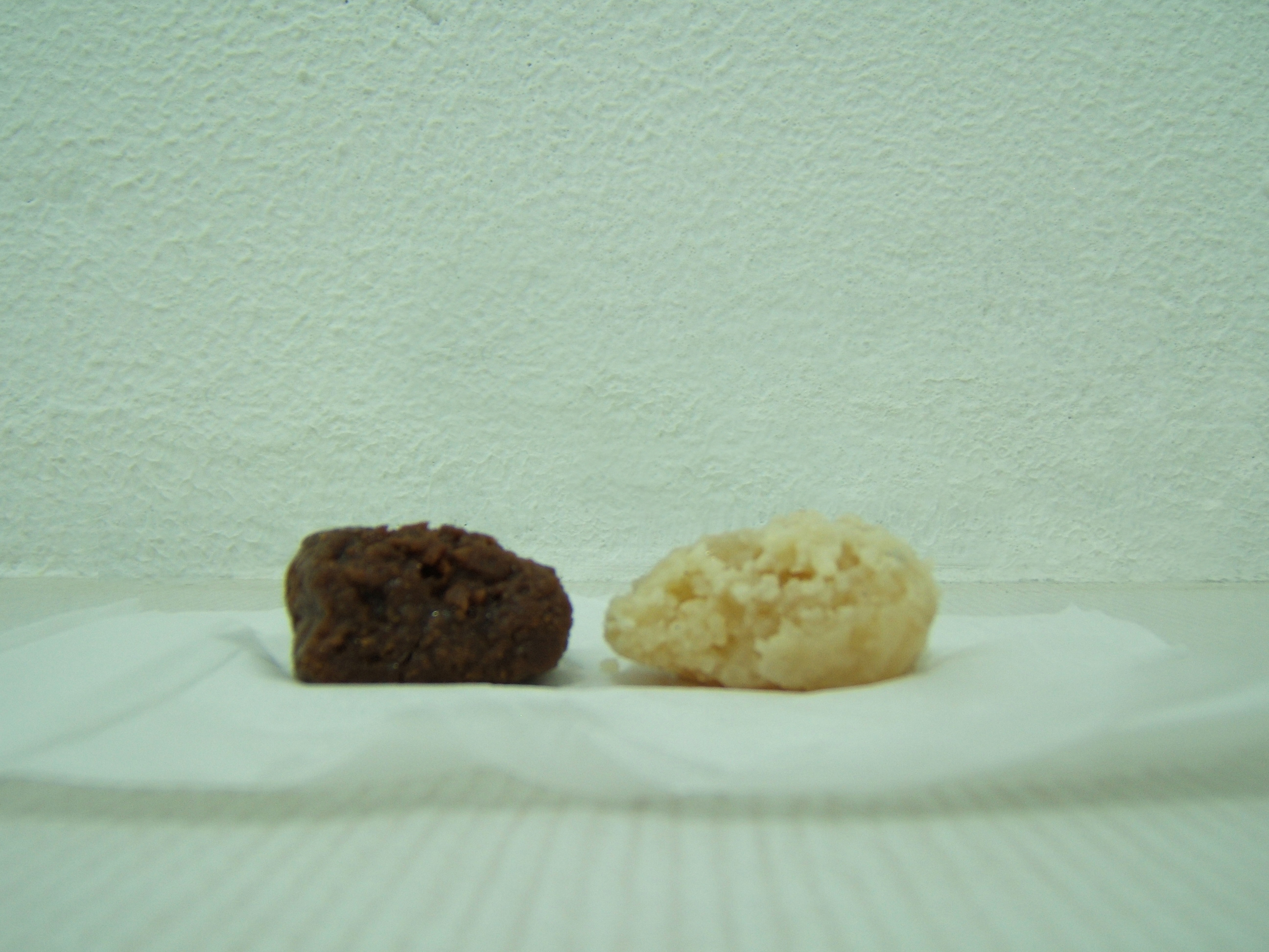 Cocada. Brazilian's candy